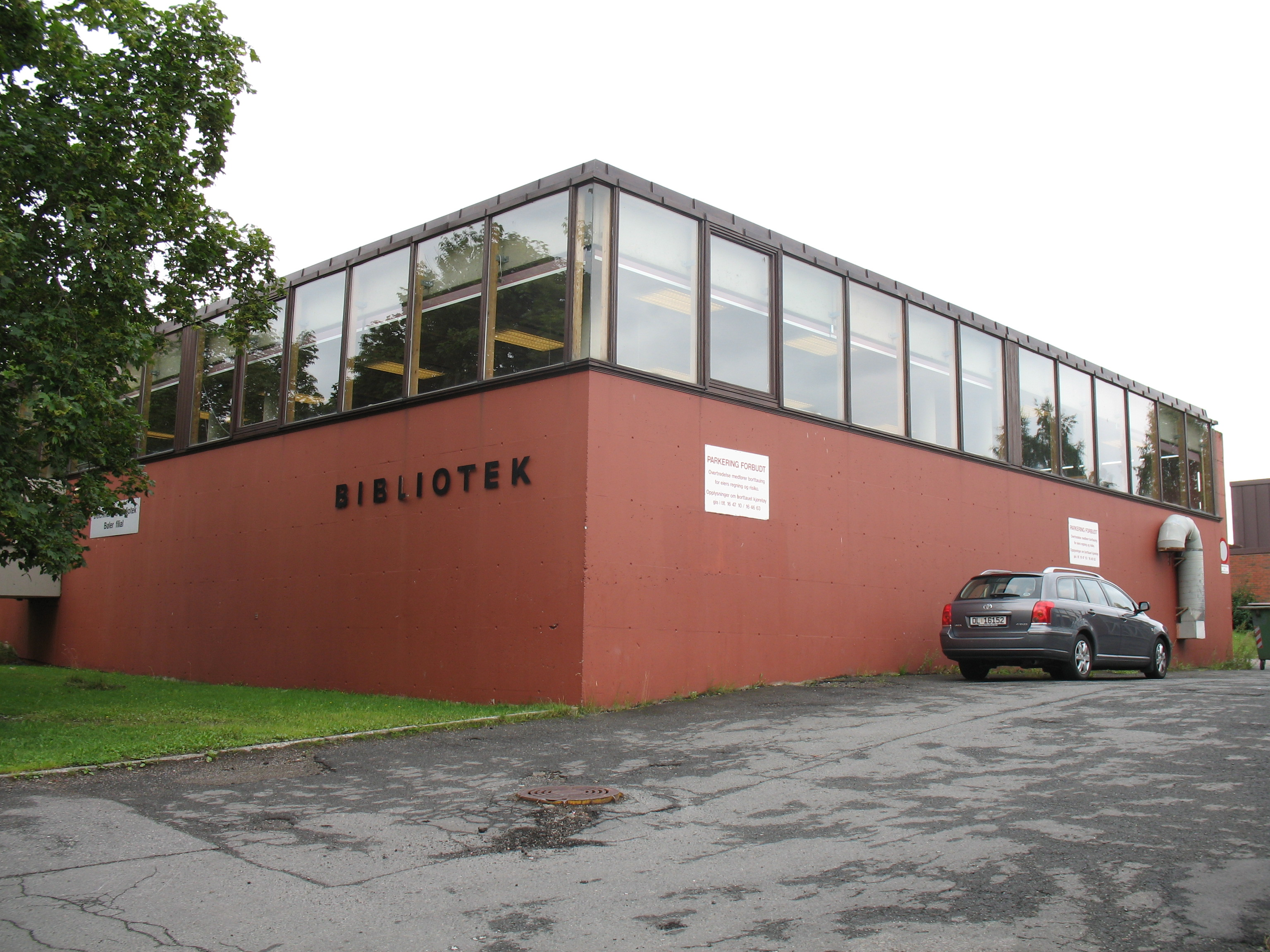 The public library of Bøler, Oslo, Norway.